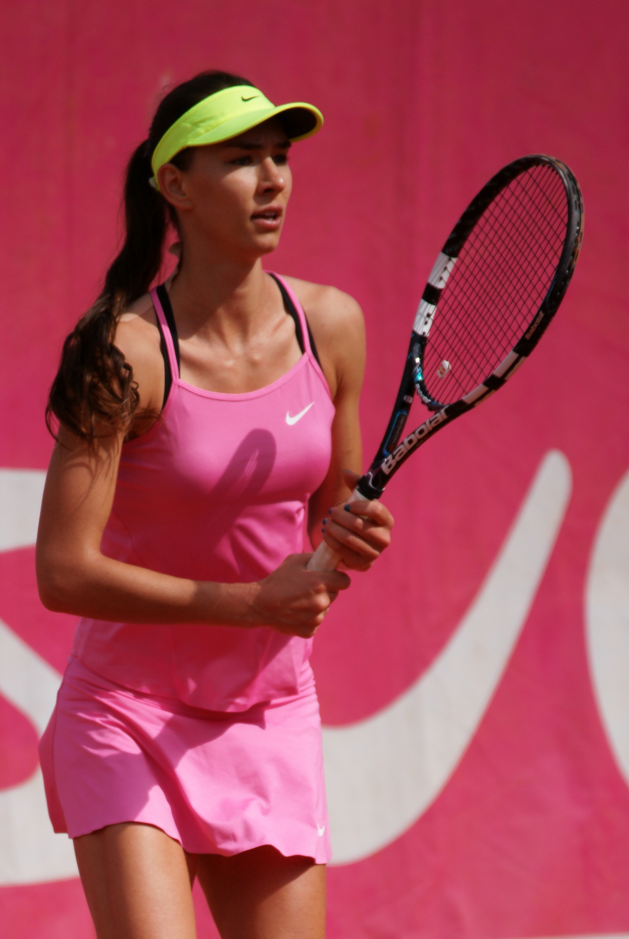 Anastasia Pivovarova, Open ITF Cagnes-sur-Mer 2015